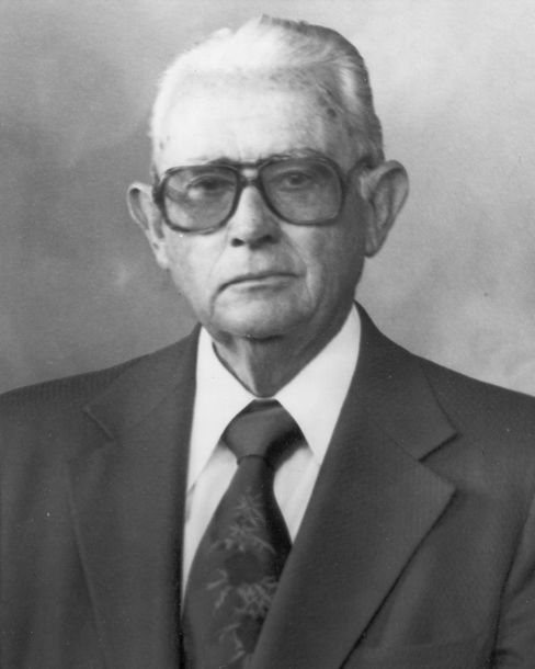 Berkeley L. Bunker, a Senator and a Representative from Nevada.